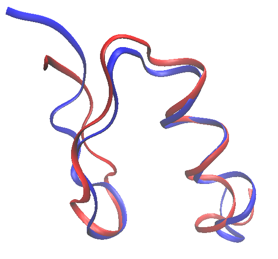 Comparison through alignment of the structure of the computationally designed protein sequence FSD-1 (blue, PDB id: 1FSV) with the structure of the zinc finger in residues 33-60 of the structure of protein Zif268 used as a template (red, PDB id: 1ZAA). This was the first full sequence de novo design of a protein. Reference: Dahiyat, Bassil I., and Stephen L. Mayo. "De novo protein design: fully automated sequence selection." Science 278.5335 (1997): 82-87.